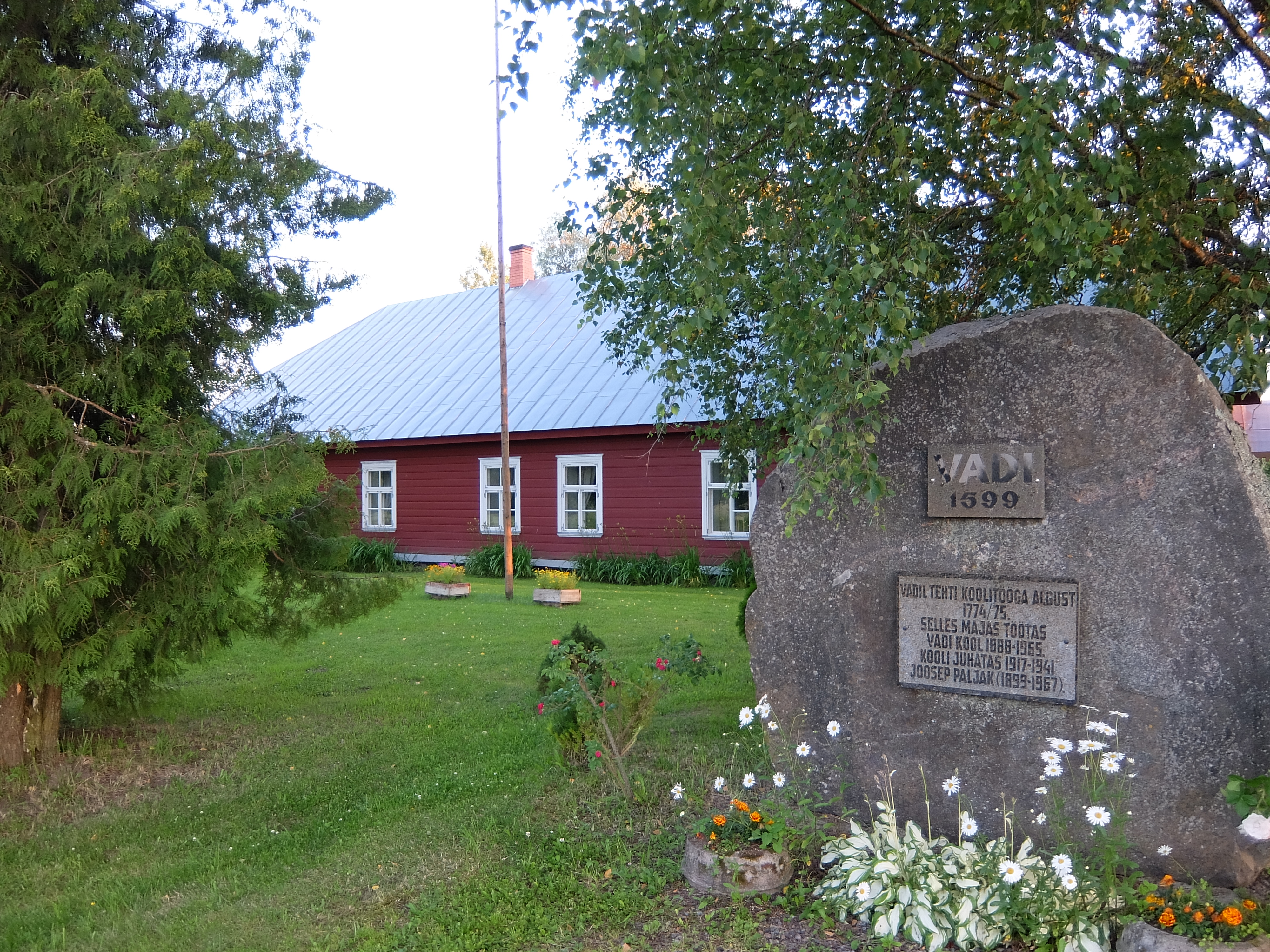 Vadi school